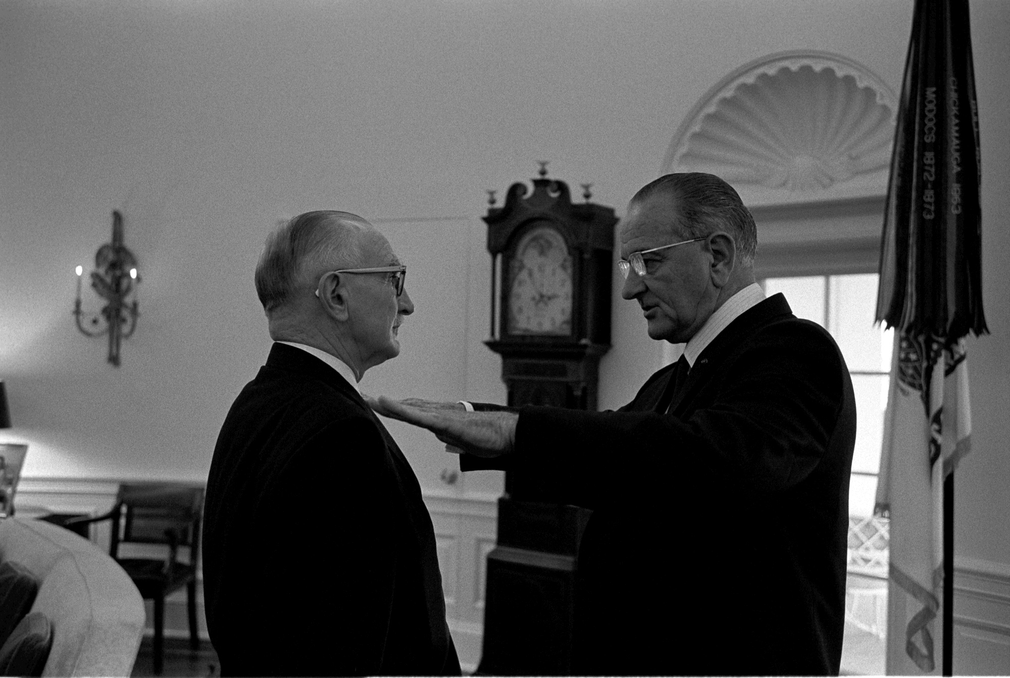 President Lyndon B. Johnson and Senator Wayne Morse meet in the Oval Office